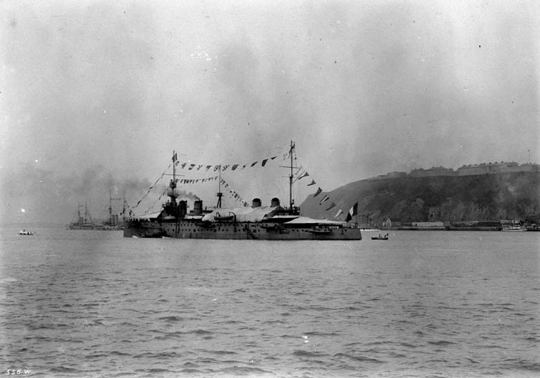 French armoured cruiser Léon Gambetta at the Quebec Tercentenary.